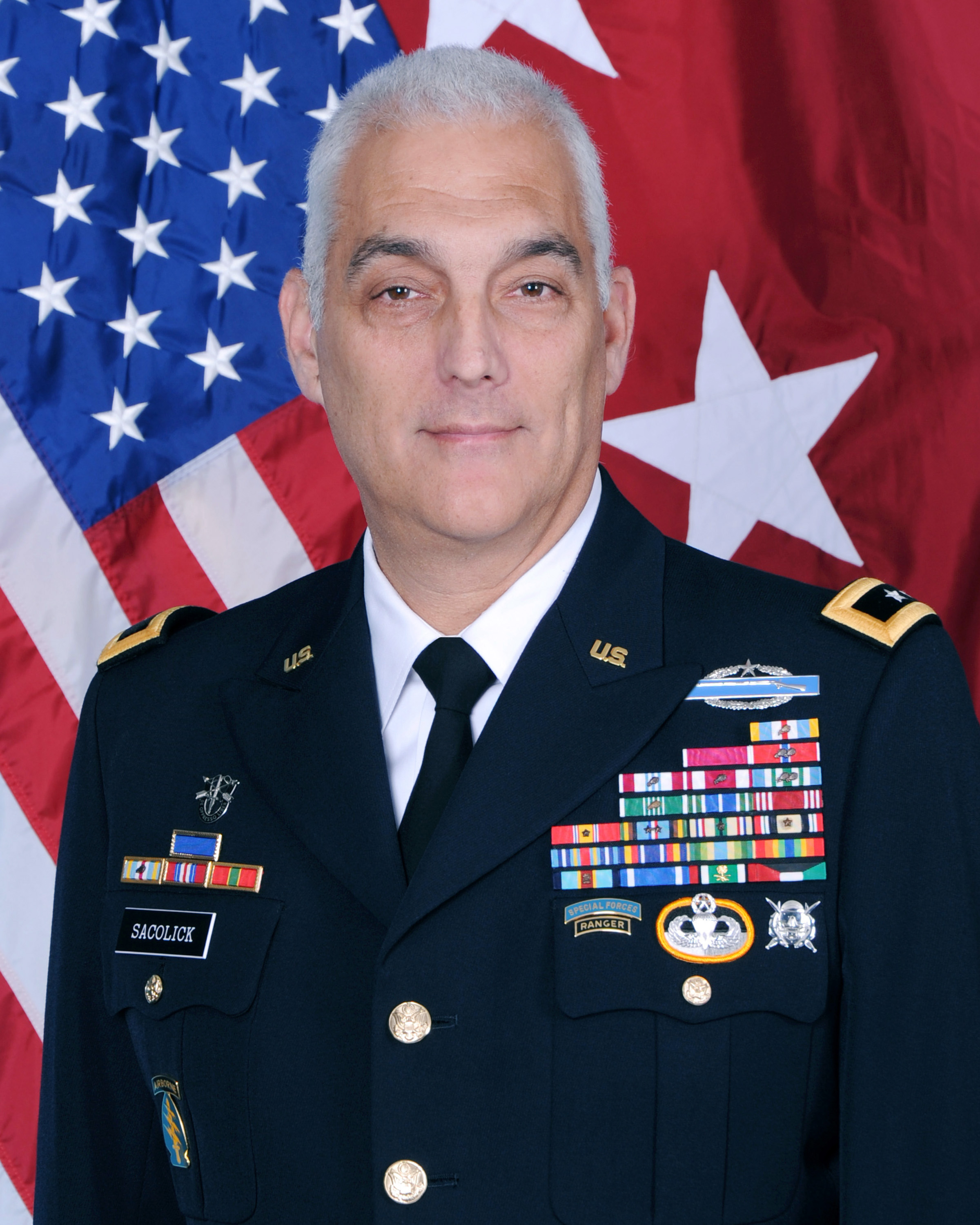 LT General Bennet Sacolick.jpg